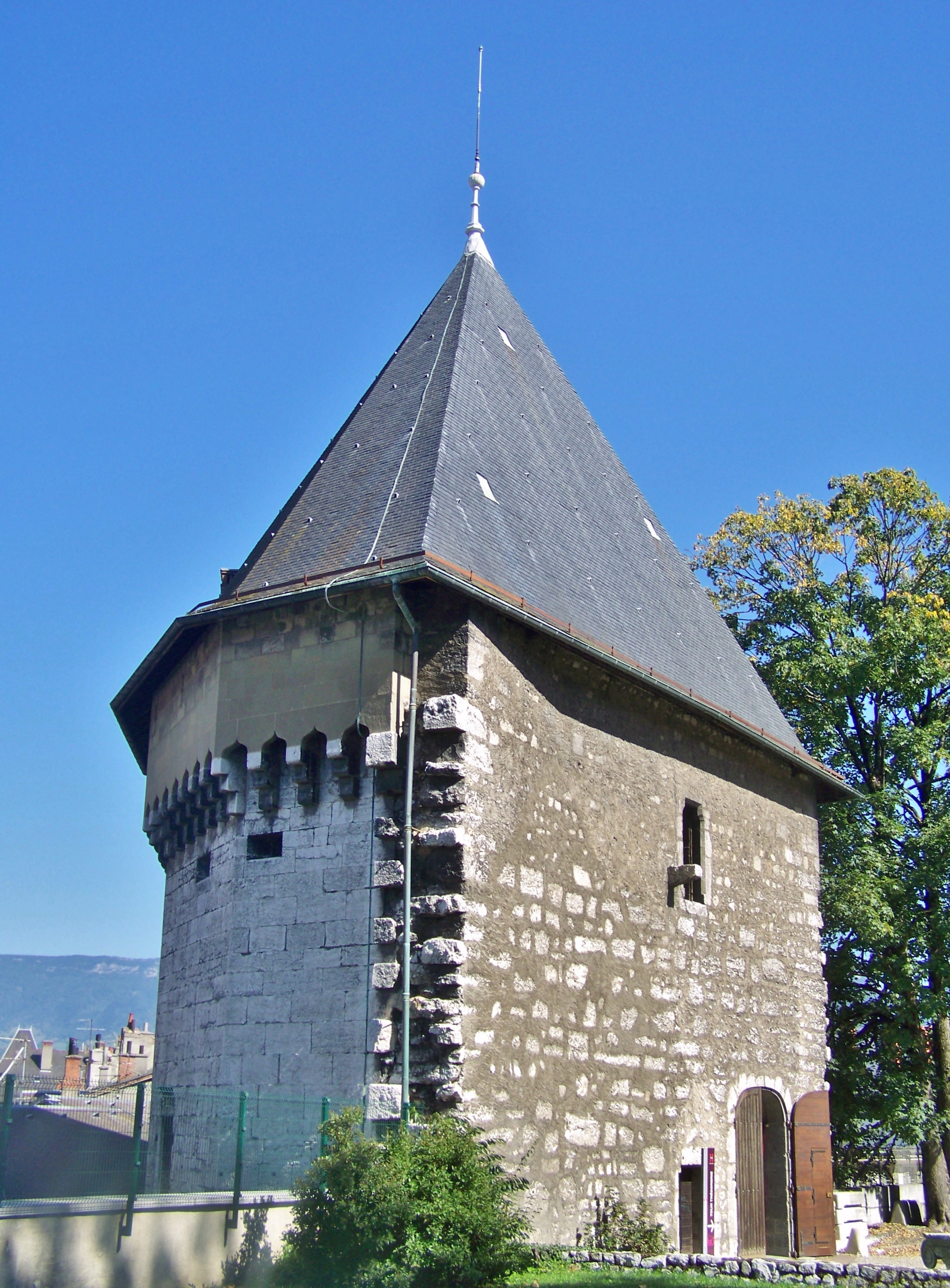 Sight of the Tour Trésorerie tower, part of the city of Chambéry castle, in Savoie, France.